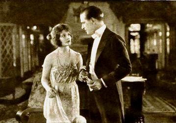 Still from the American film Ladies Must Live (1921) with Betty Compson and an unidentified actor, on page 25 of the January 1922 Screenland.